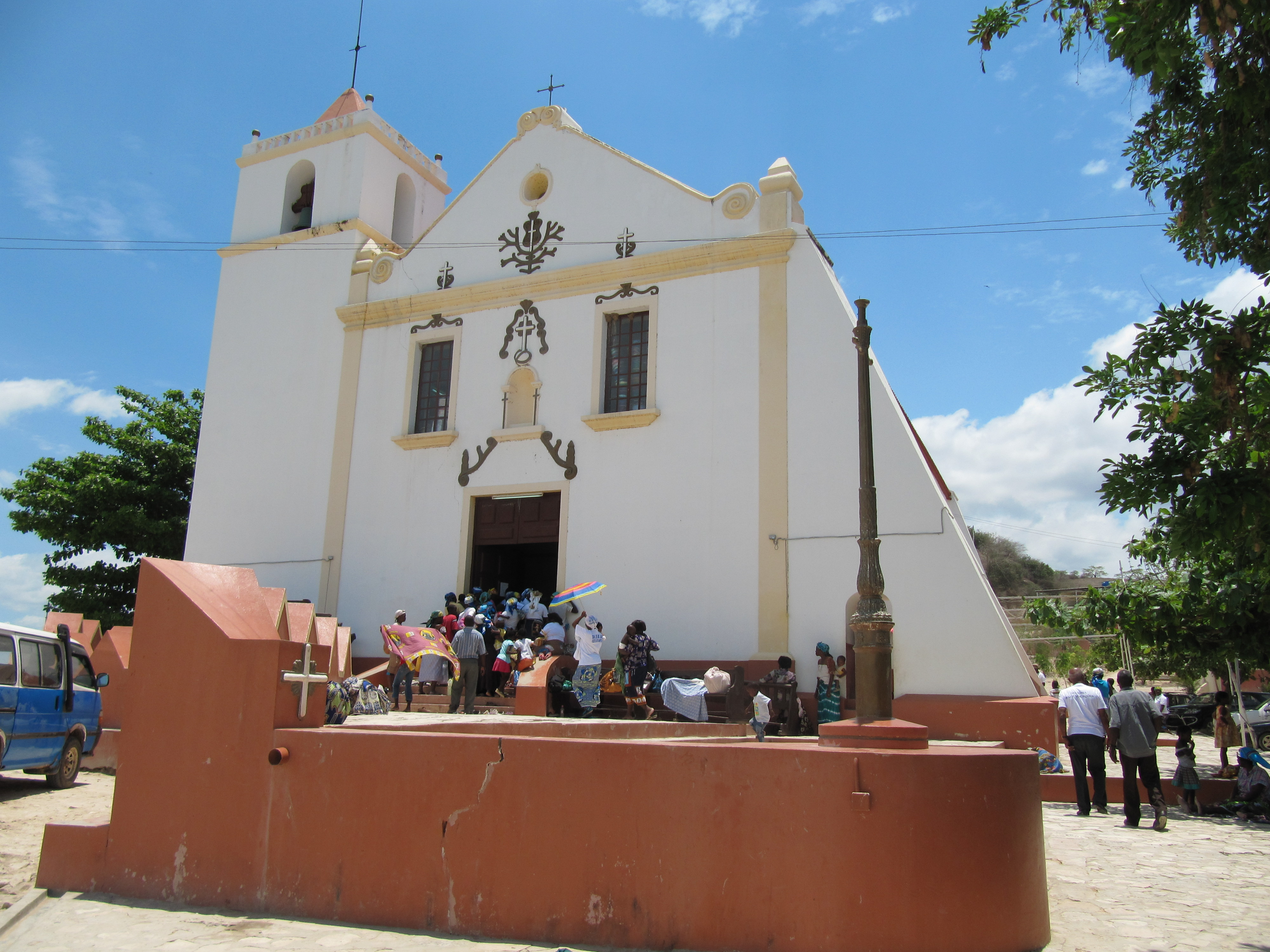 Church of Muxima (pilgrimage site), Luanda province, Angola.